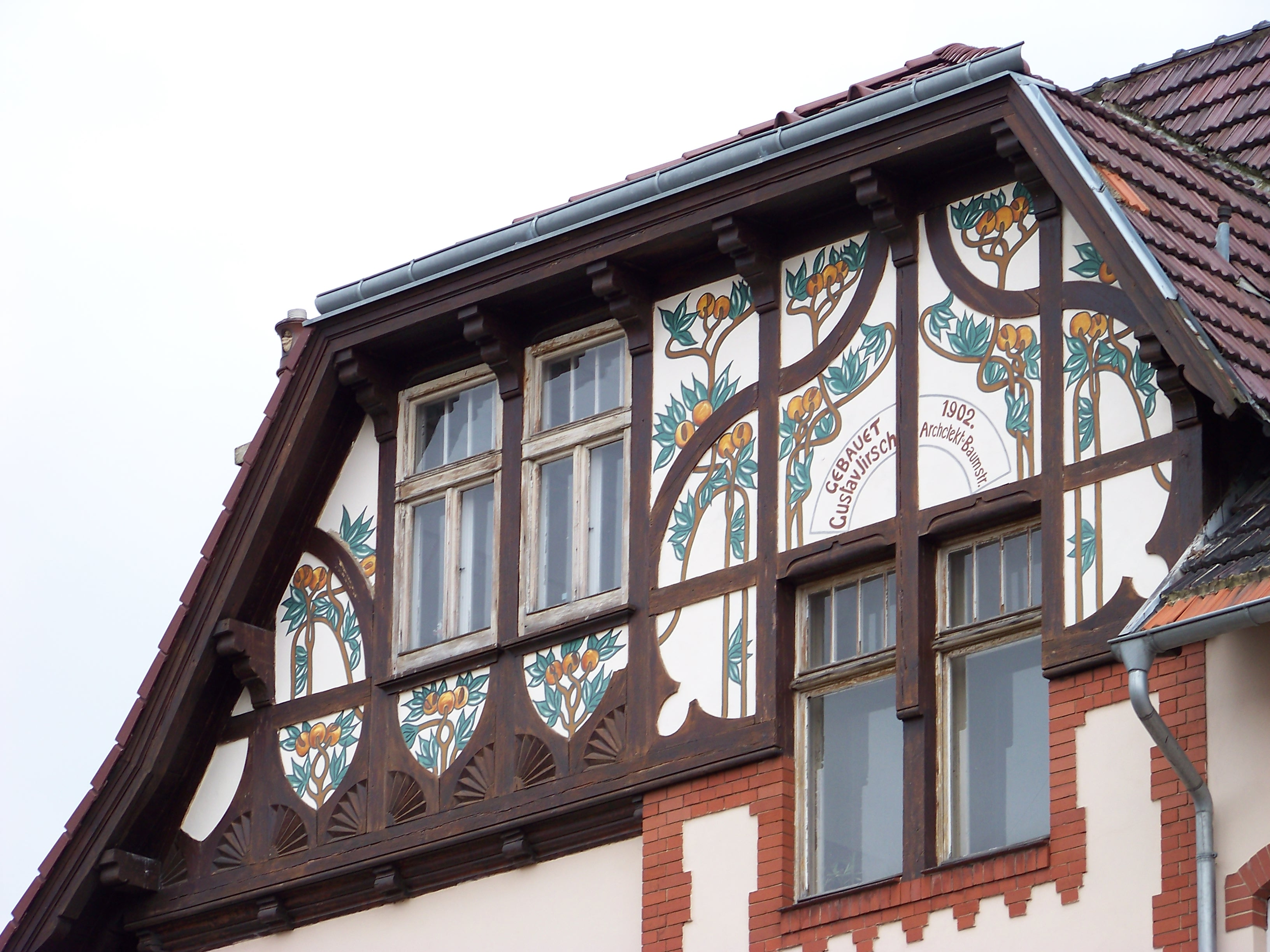 Teplice, Teplice District, Ústí nad Labem Region, the Czech Republic. Josefa Suka 1371/1.